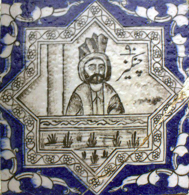 Genghis Khan portrait in Moaven Almolk Tekiye, Kermanshah Iran